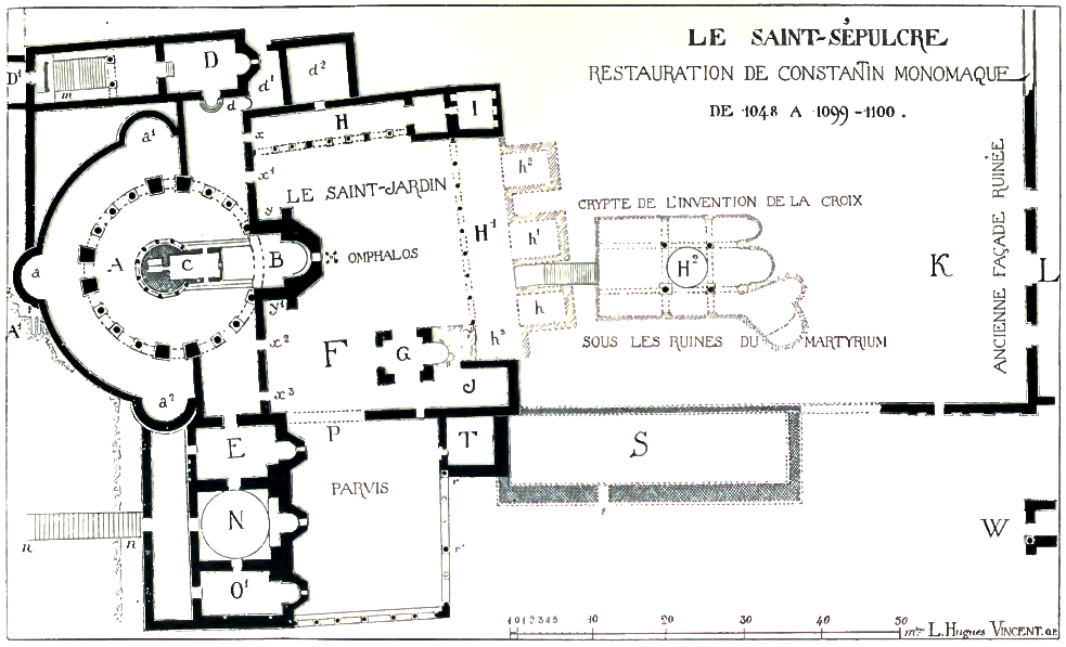 Diagram of the Holy Sepulchre after Constantine IX Monomachos' rebuilding - by Le P. Hugues VINCENT (1912)